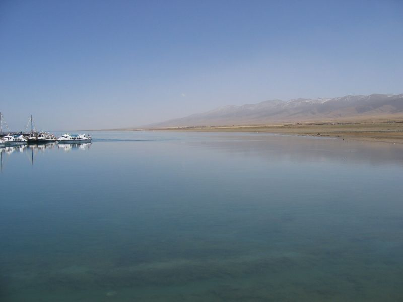 Qinghai Lake. it's not the sea. it's a salty lake more than 3,000 meters above sea level. the tibetan name for the lake means "green and blue lake".